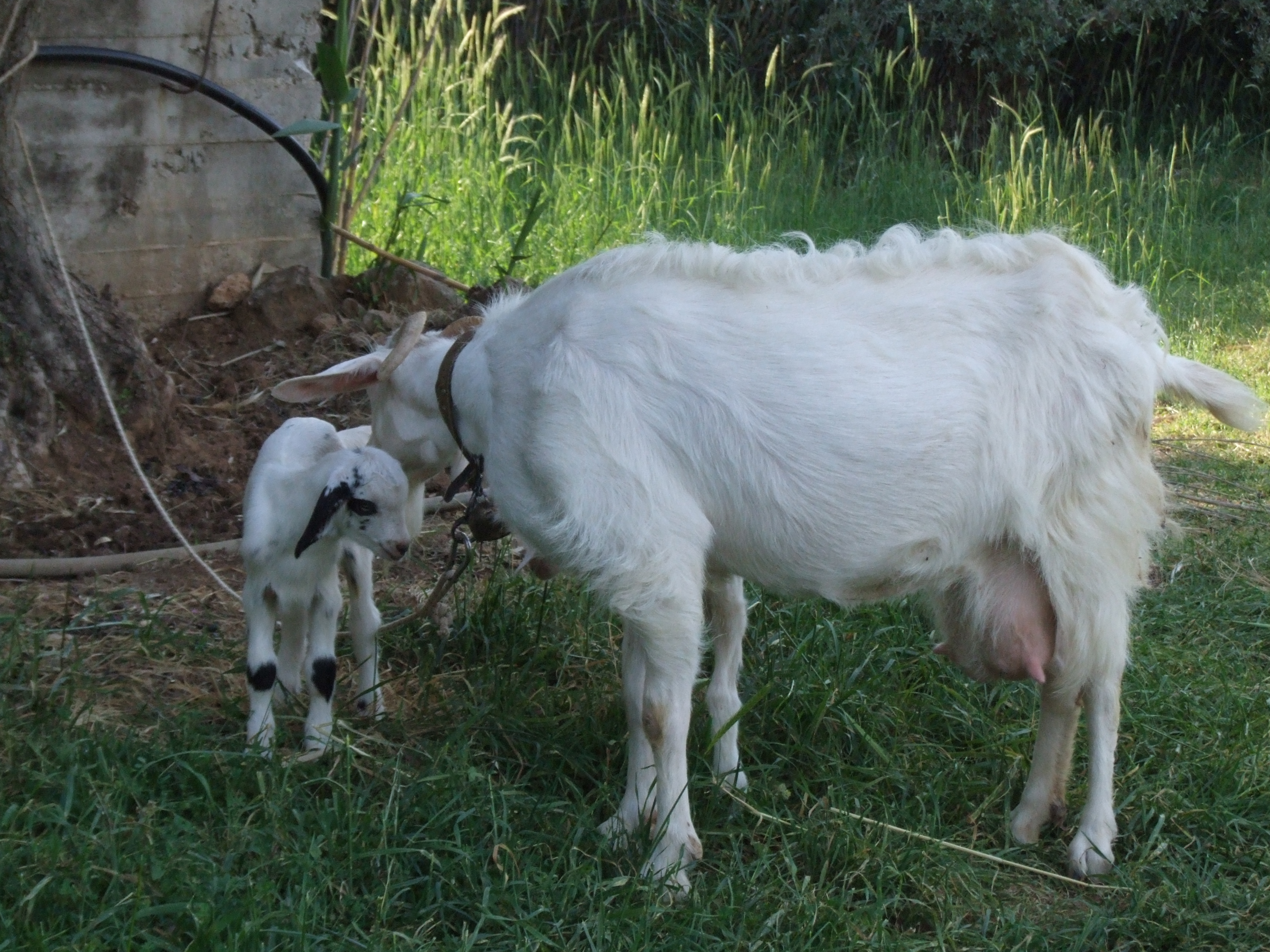 A goat with its 4 day old kid.